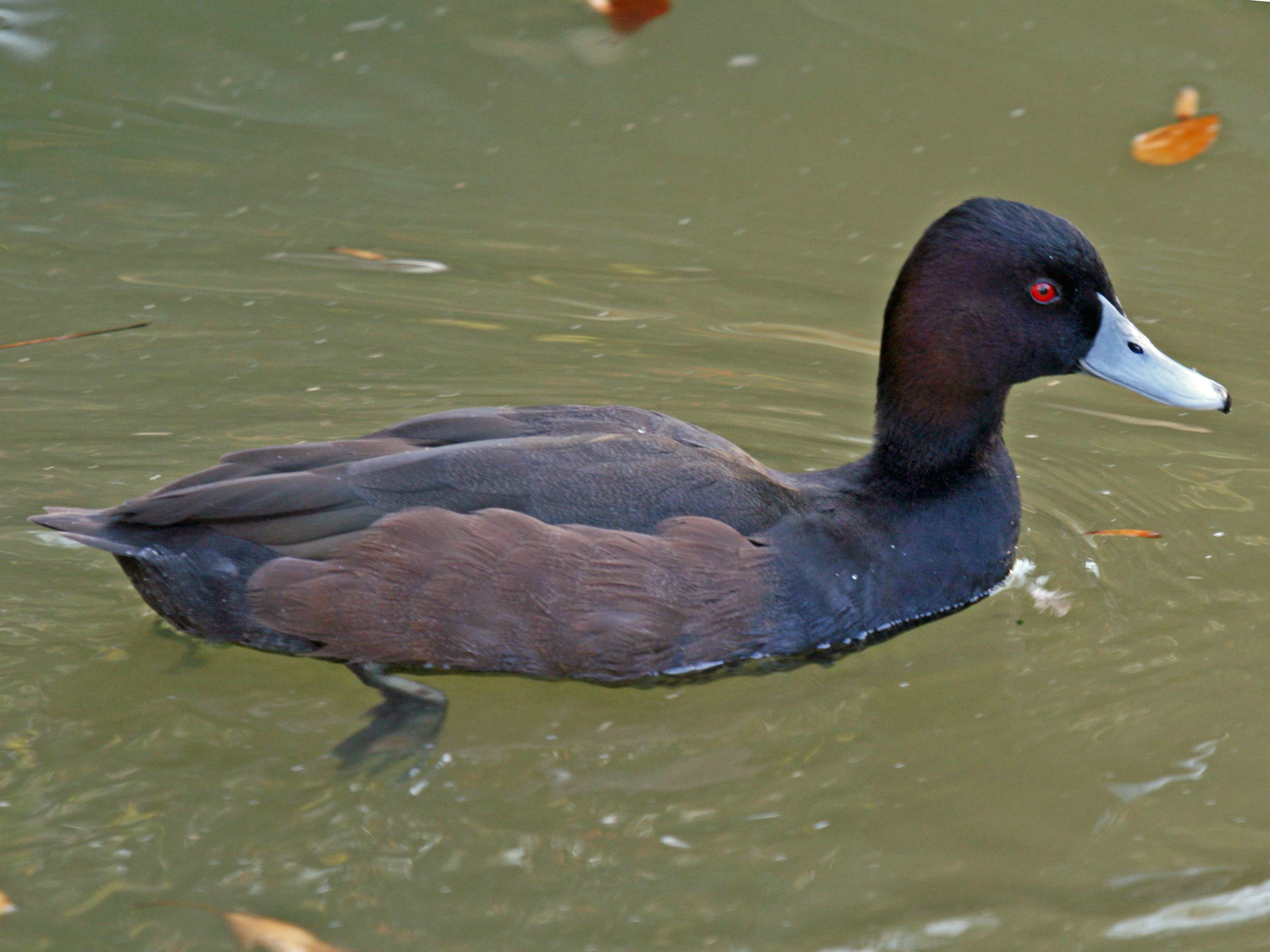 ♂ Southern Pochard (Netta erythrophthalma) at Sylvan Heights Waterfowl Park in Scotland Neck, North Carolina.